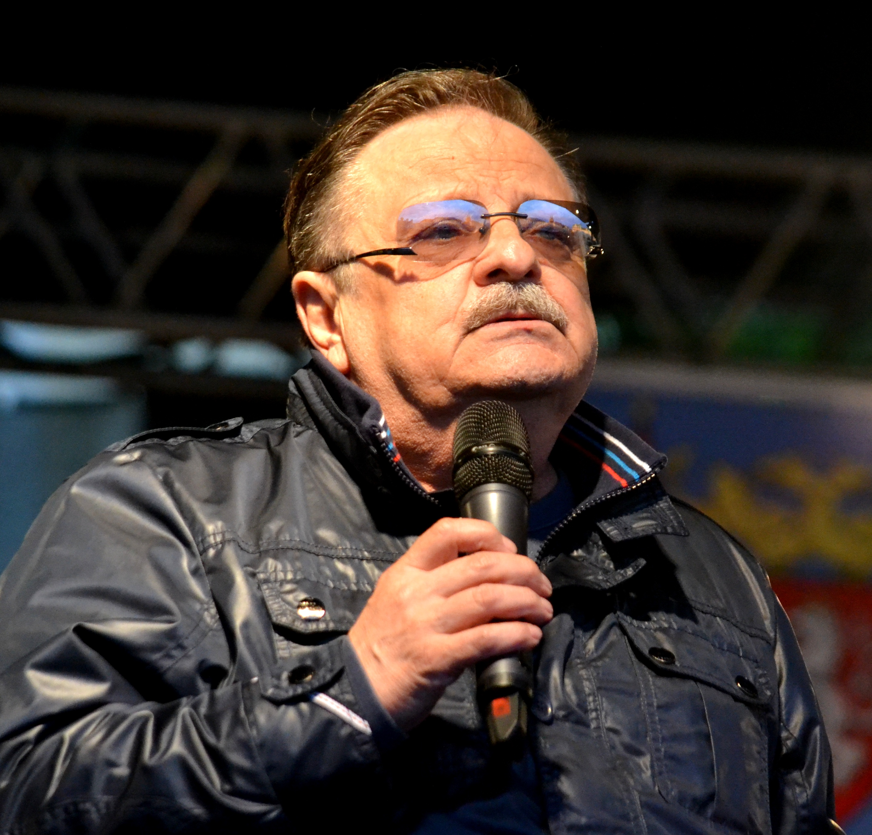 Petr Spálený, Czech vocalist